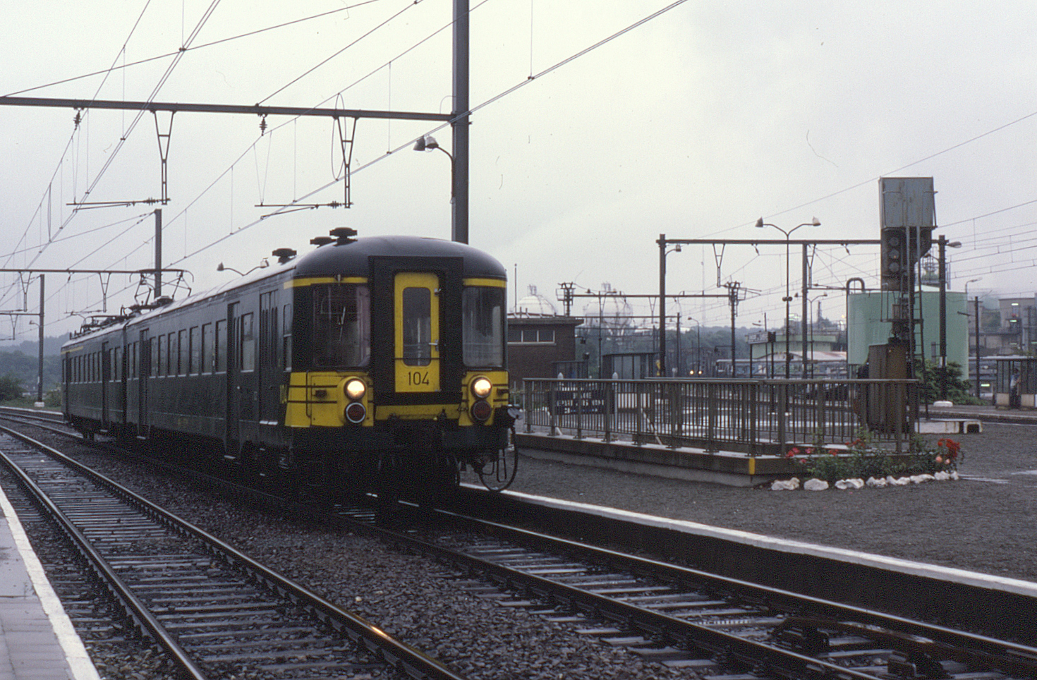 2-car AM54 EMU no. 104 was employed on the line between Gembloux and Jemeppe-sur-Sambre on a wet 7 September 1987. Seen here at Jemeppe-sur-Sambre is the 17:43 from Gembloux. The line has only a limited AM and PM Mondays to Fridays service, however is electrified for the large amount of freight traffic.